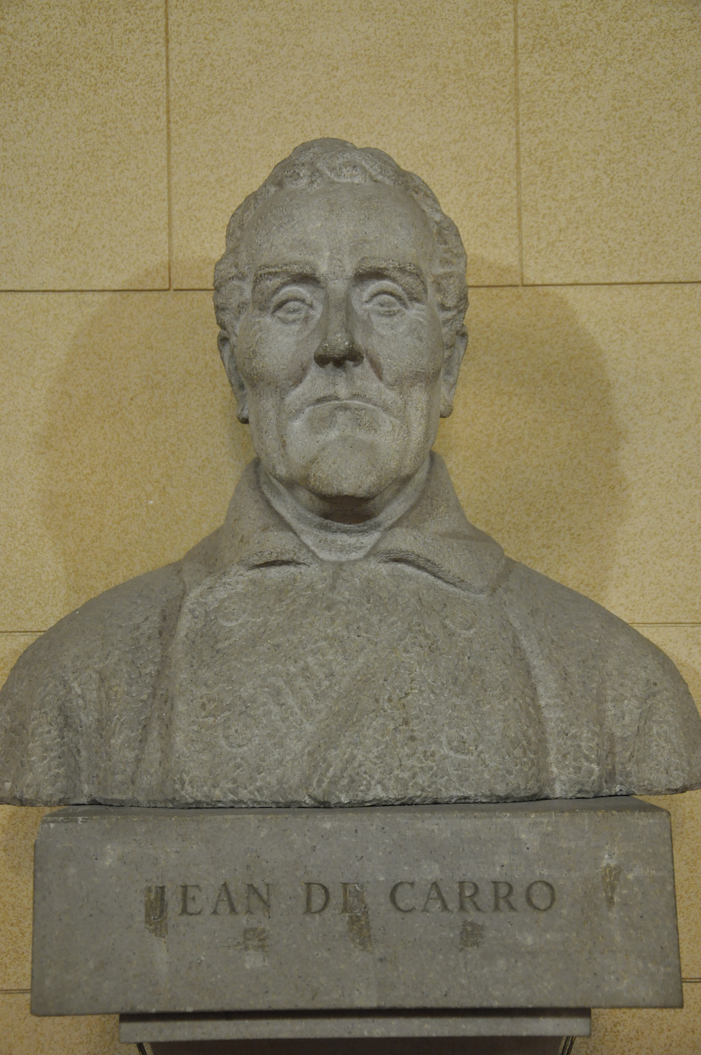 Bust of Chevalier Jean de Carro standing in the stairway of the Imperial Spa in Carlsbad, Czech Republic.